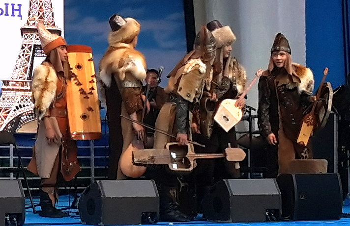 Turan Ensemble, playing music of Kazakhstan in Paris at Place du Palais-Royal, beside Louvre Palace, November 1st, 2014.